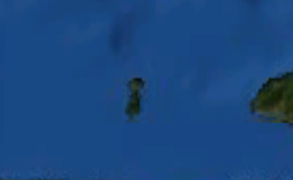 İmrali island in Turkey as seen from satellite